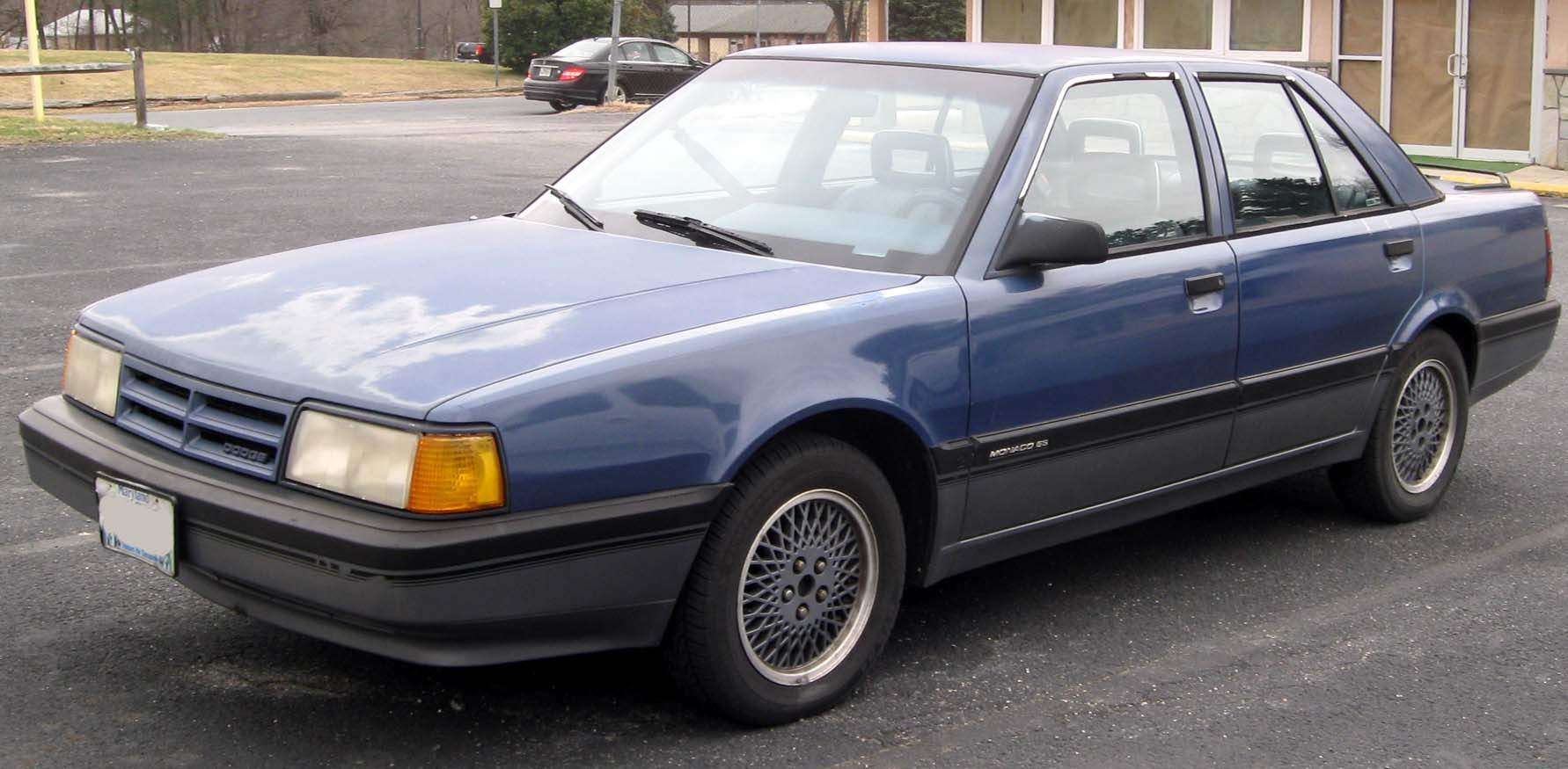 1990-1992 Dodge Monaco ES photographed in Silver Spring, Maryland, USA.